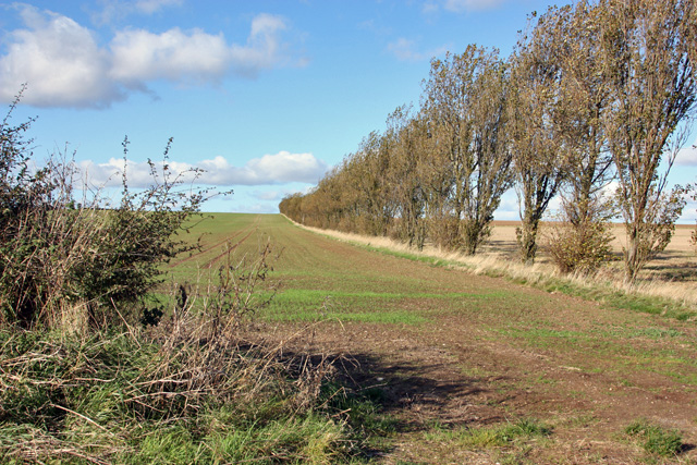 A wind break west of Kirkburn, East Riding of Yorkshire, England.The mature poplars are quite effective as a wind break.